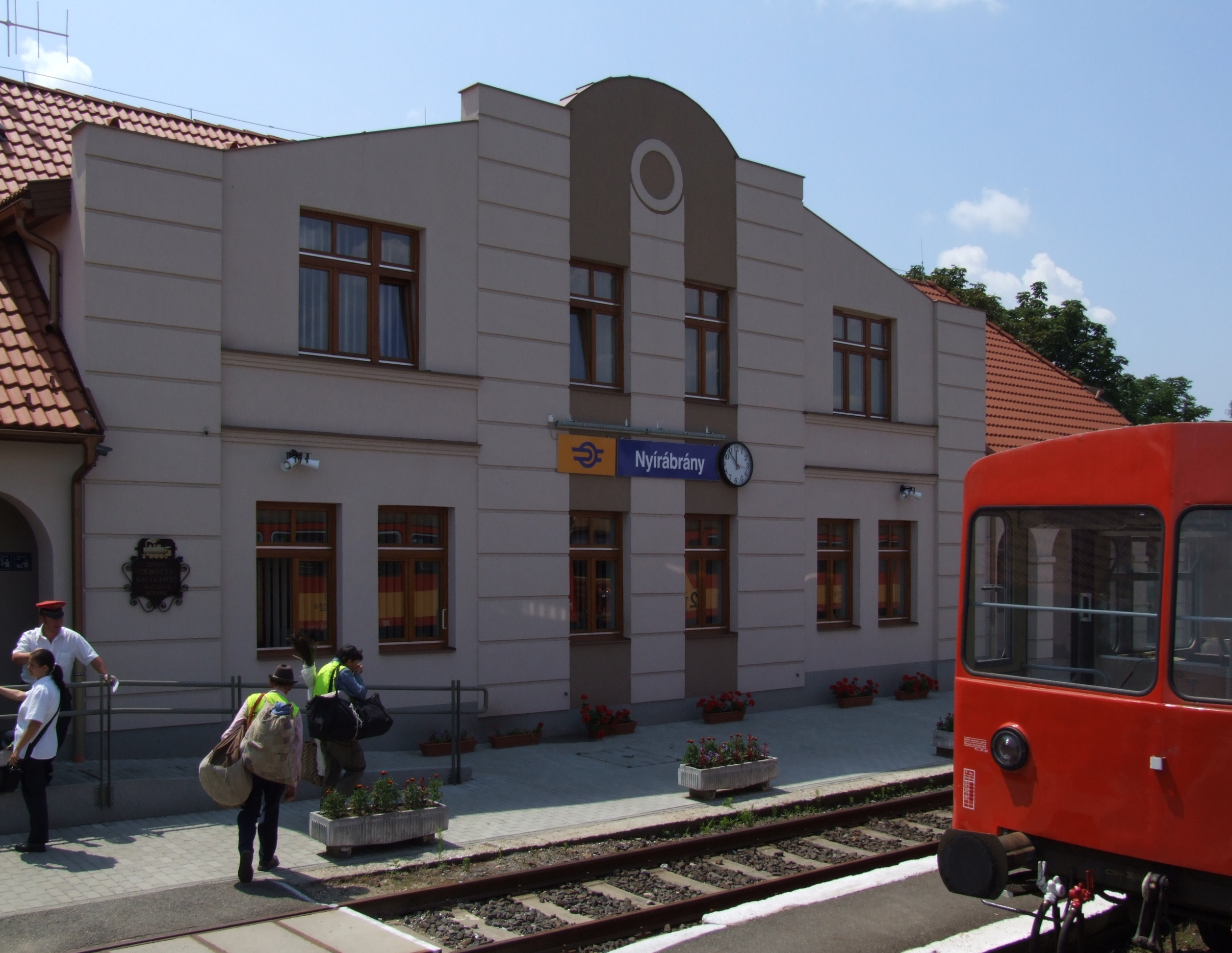 Nyírábrány, Hungary. Last train station before the border with Romania Ślůnski: Nyírábrány, Madźary. Uostatńi Banhow wele grańice ze Růmůńjům